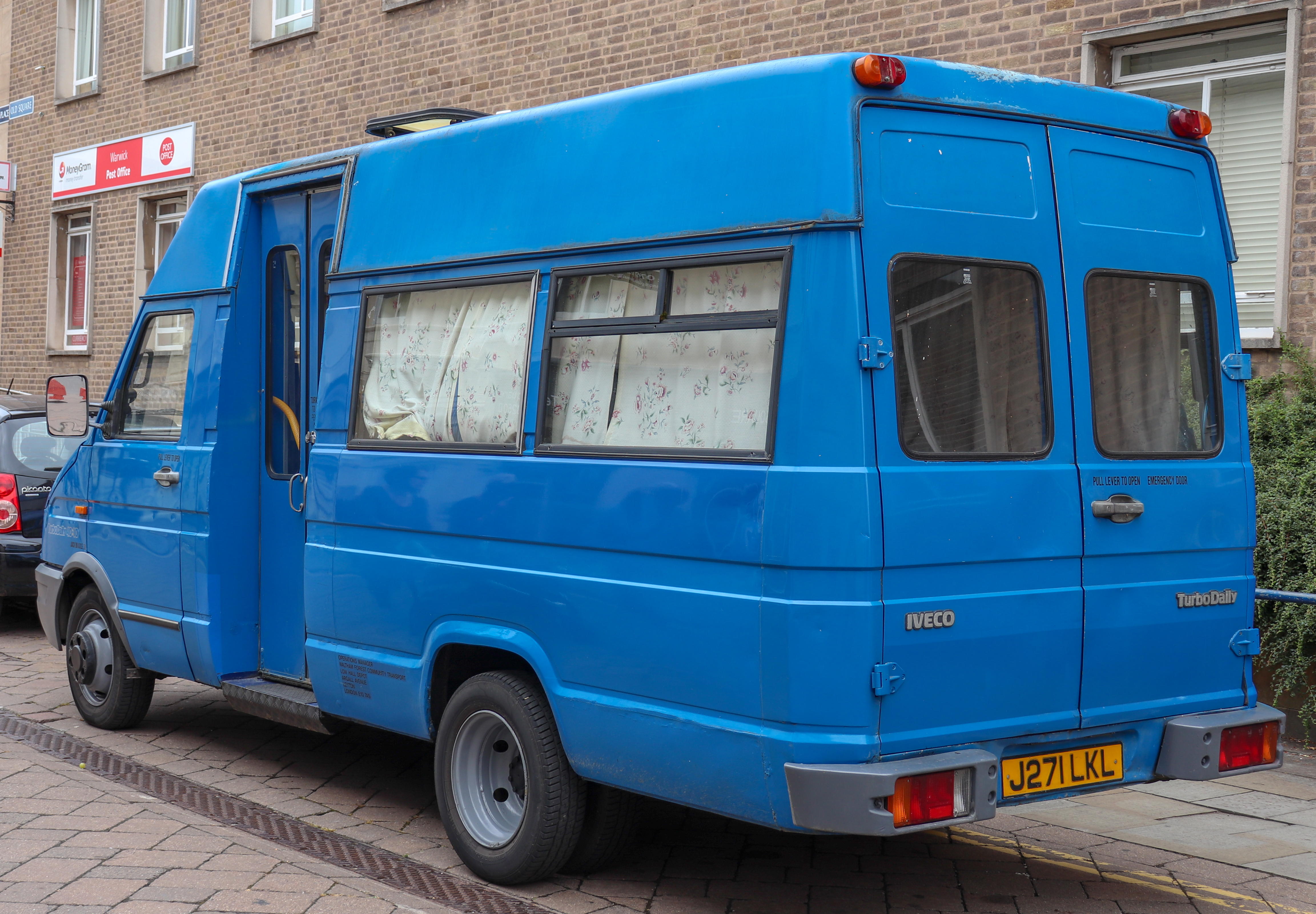 1991 Iveco-Ford TurboDaily 40-10 2.4 Rear Taken in Warwick